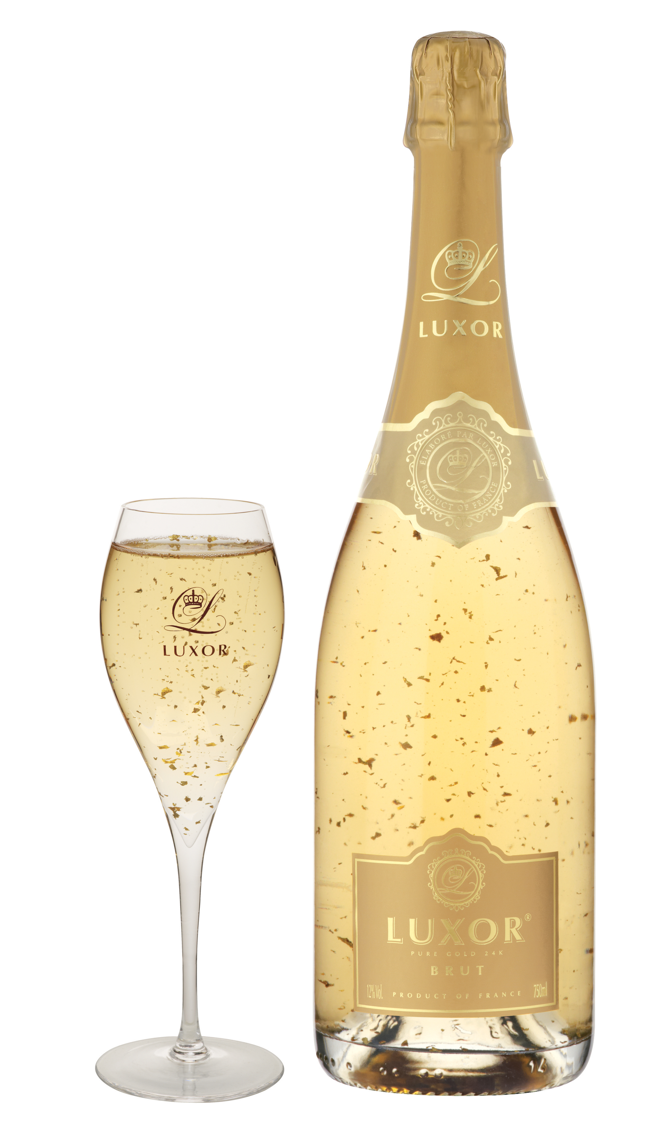 Luxor Brut - Pure 24K Gold